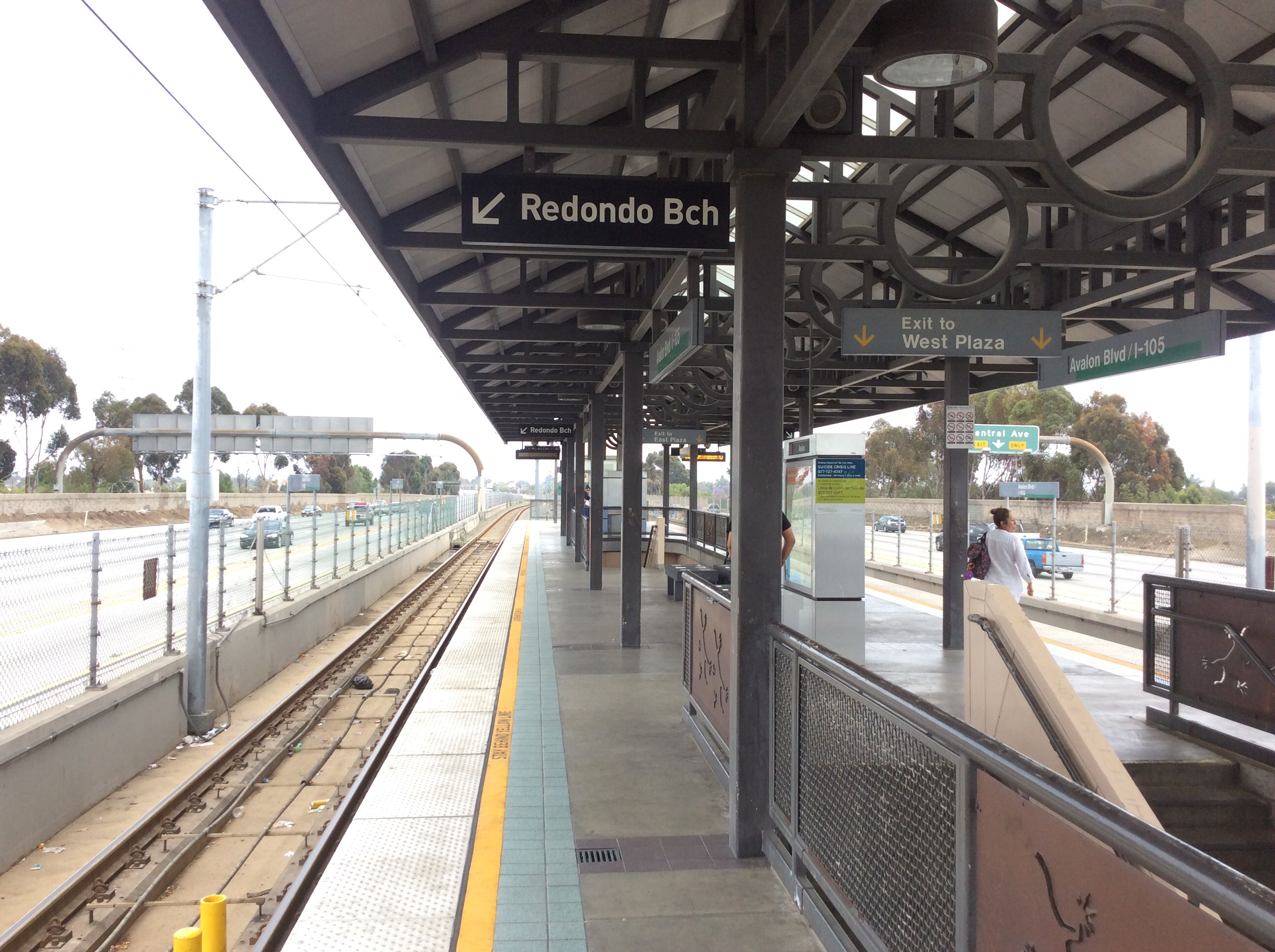 The platform view of Avalon Station.